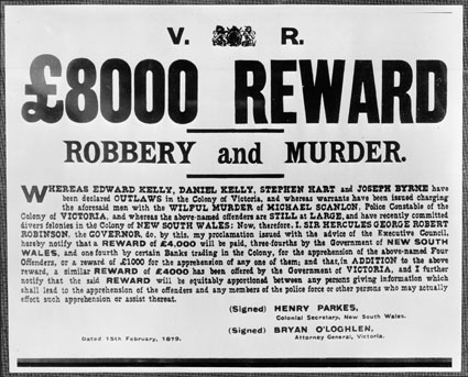 Title : 8000 pound reward notice for the capture of the Ned Kelly gang